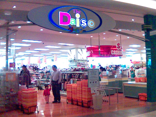 Daiso's first store in North America, at Aberdeen Centre in Richmond, British Columbia.